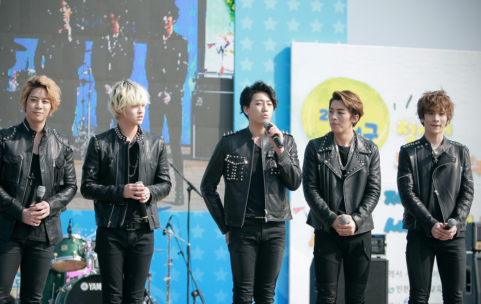 Mr.Mr at the Incheon Festival on May 12, 2013.